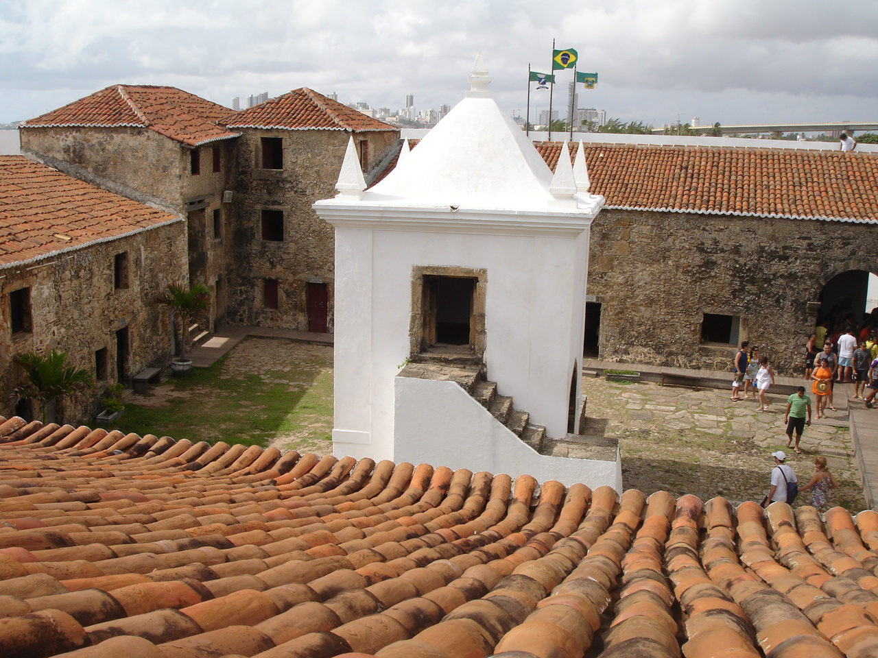 Forte dos Reis Magos, Natal. Forte dos Reis Magos, Natal, Natal.